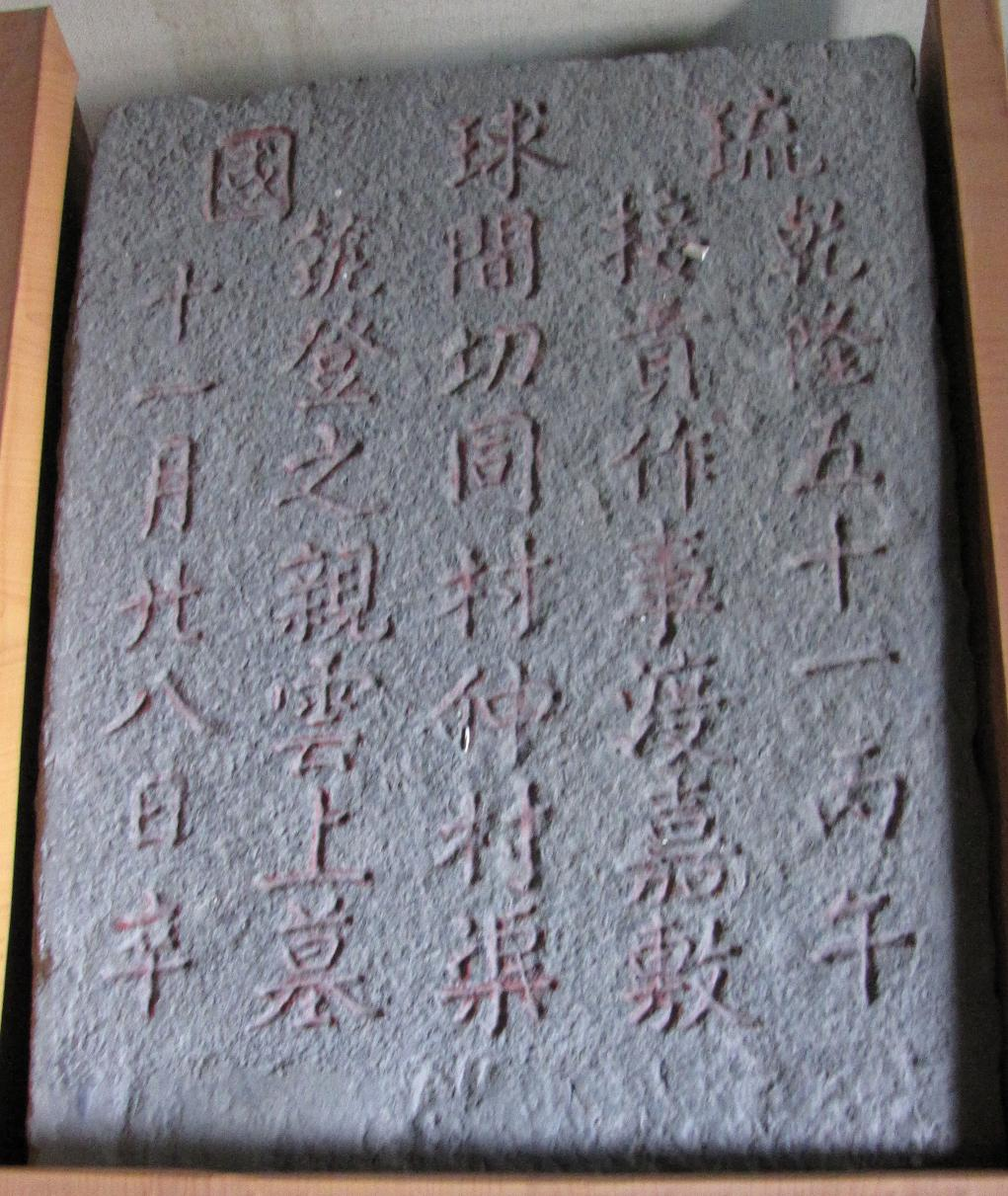 Ryukyu tomb stone in Fuzhou, China